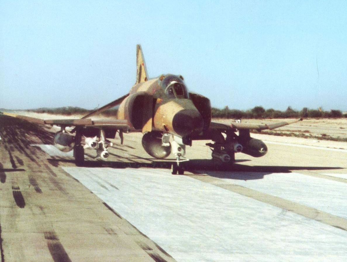 Imperial Iranian Air Force F-4E_Phantom II armed with AGM-65 Maverick, takes off from Military Airbase.